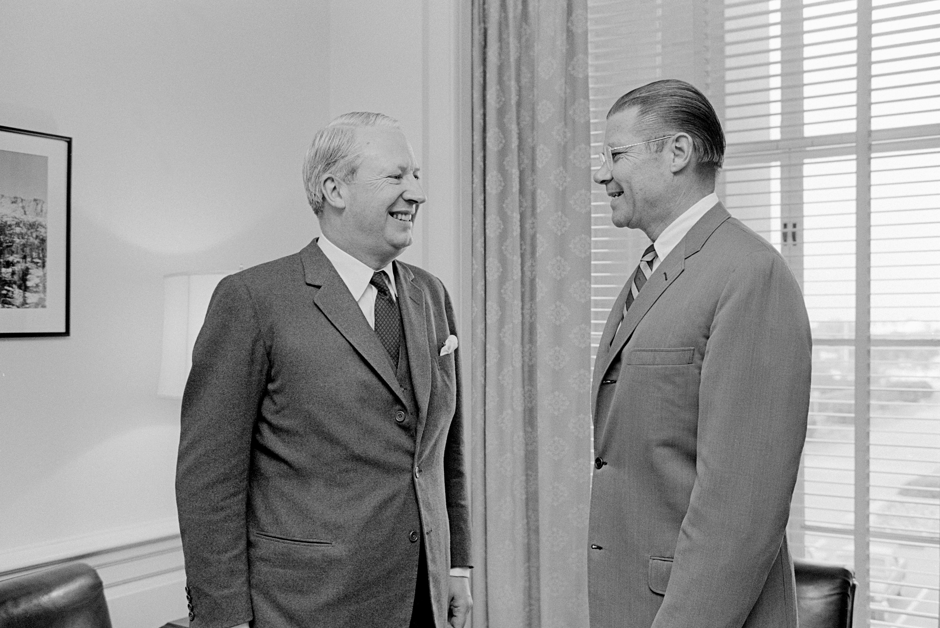 Secretary of Defense Robert S. McNamara, right, meets at the Pentagon with Edward Heath, leader of the opposition party in the House of Commons, Great Britain.